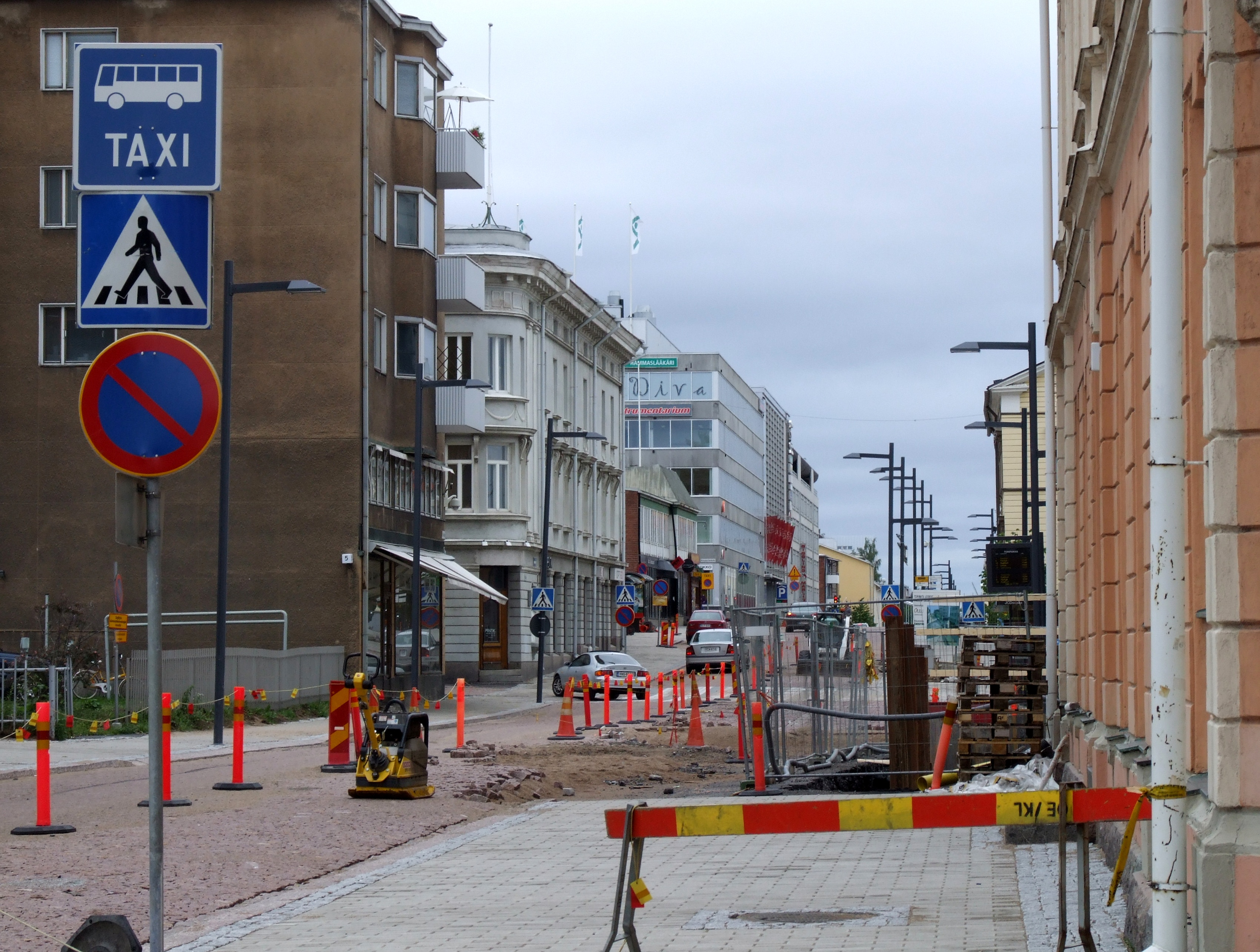 The Torikatu street in Oulu.